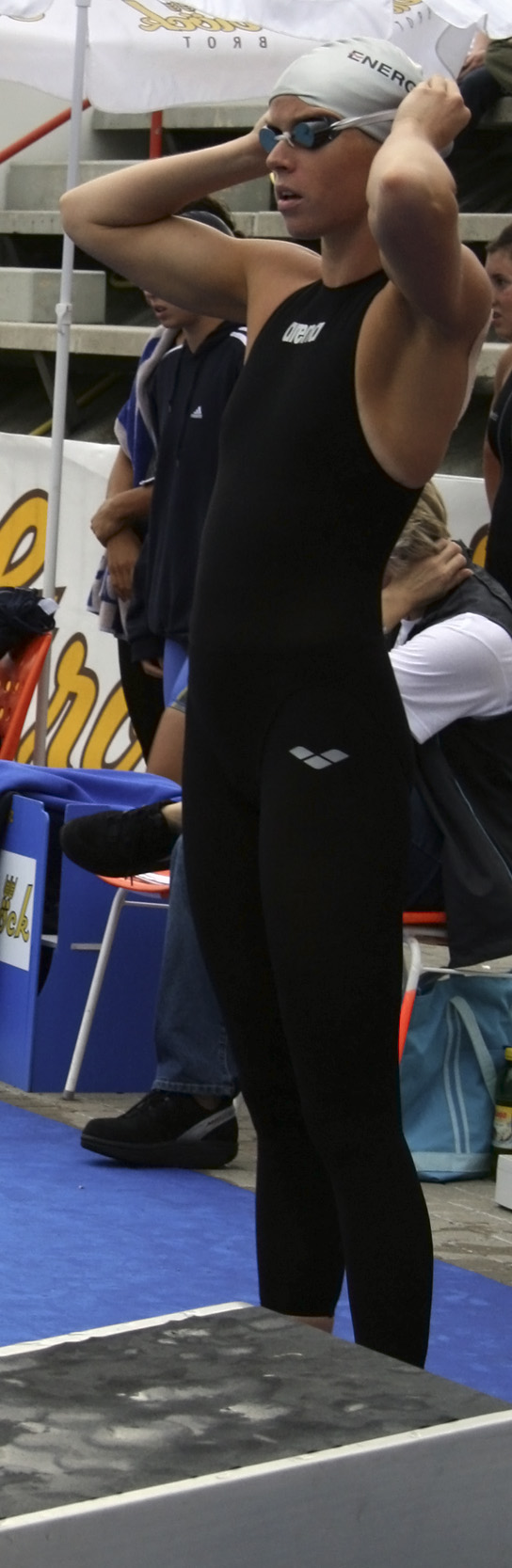 Austrian swimmer Jördis Steinegger at the 63. Austrian State Championships (2008 Schwechat).